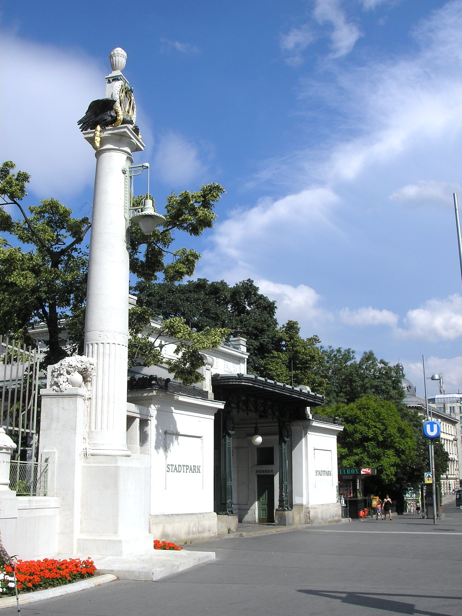 Detail of Stadtpark station, a Jugendstil building.